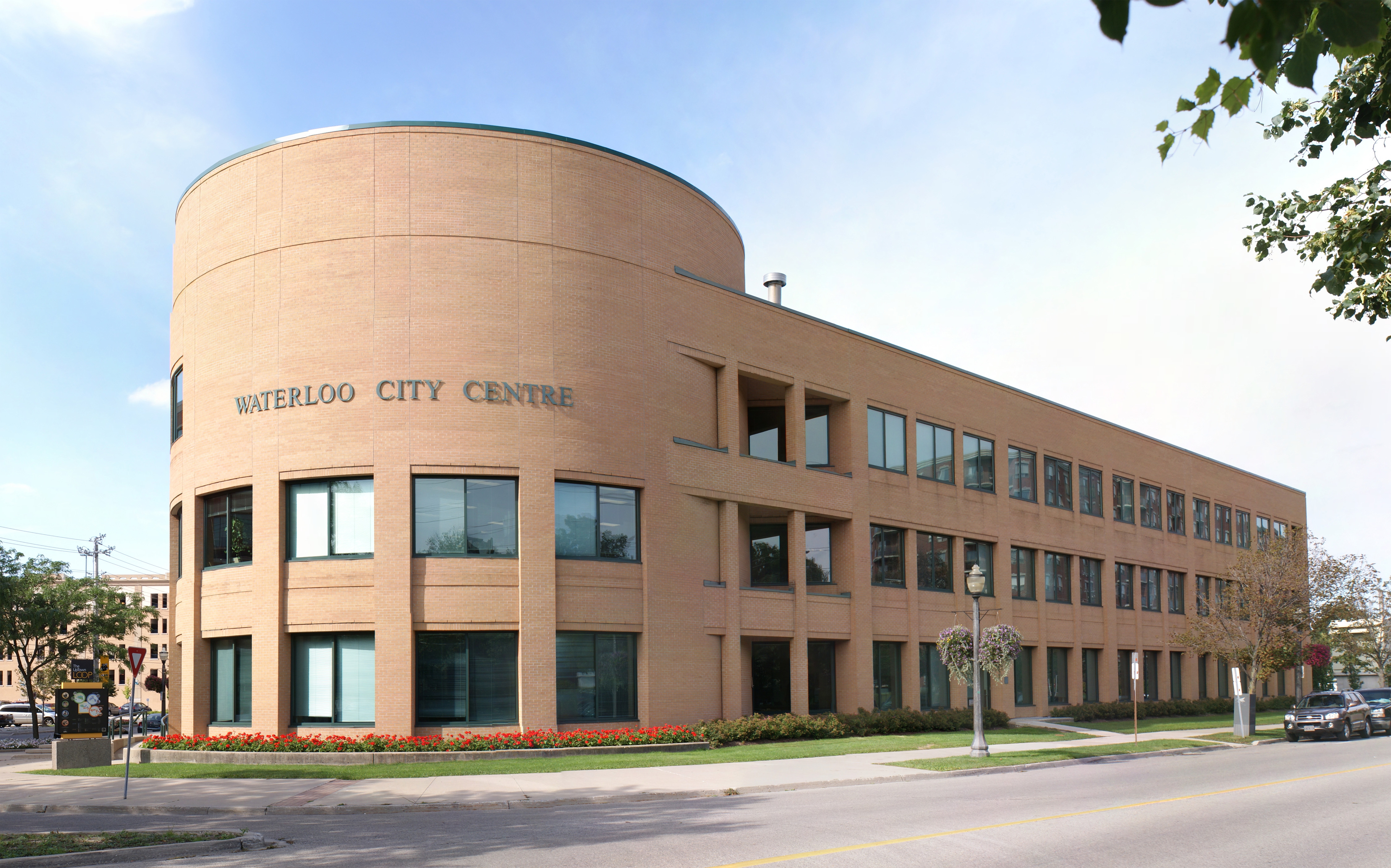 Ultra high-resolution panorama of the City Hall of Waterloo, Ontario. This image is a composite of 26 separate photos taken at: 28mm, f9,1/80, ISO-100. It was stitched using PTGui.